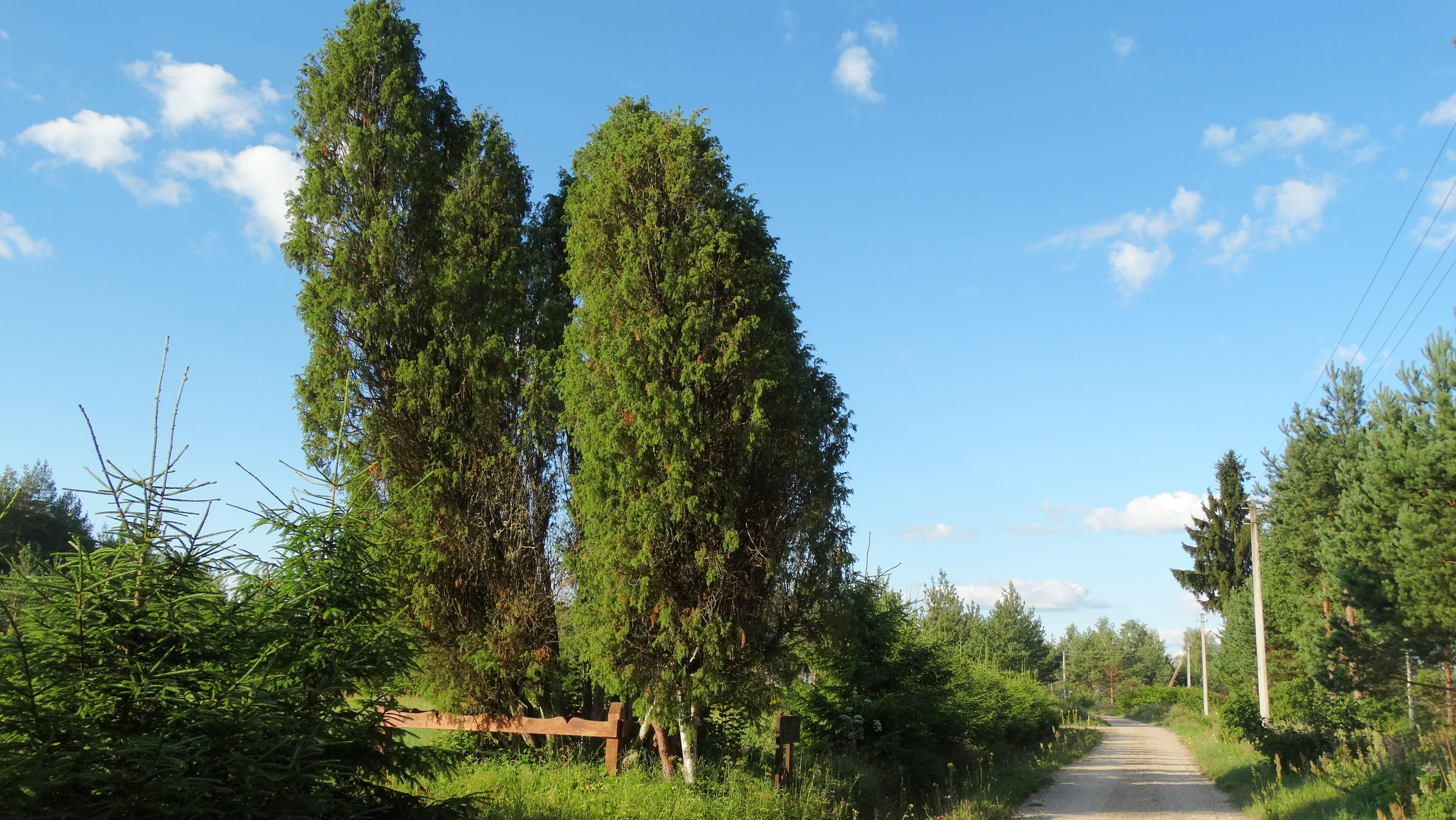 Juniper, Obelų Ragas, Švenčionys District, Lithuania